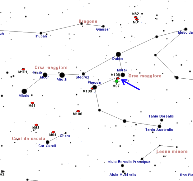 Map of M108